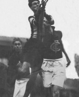 Photograph of Clarrie Morelli in 1927